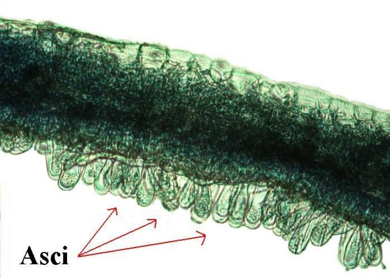 Taphrina caerulescens asci. Oak leaf blister, Host: bur oak (Quercus macrocarpa). Location: United States